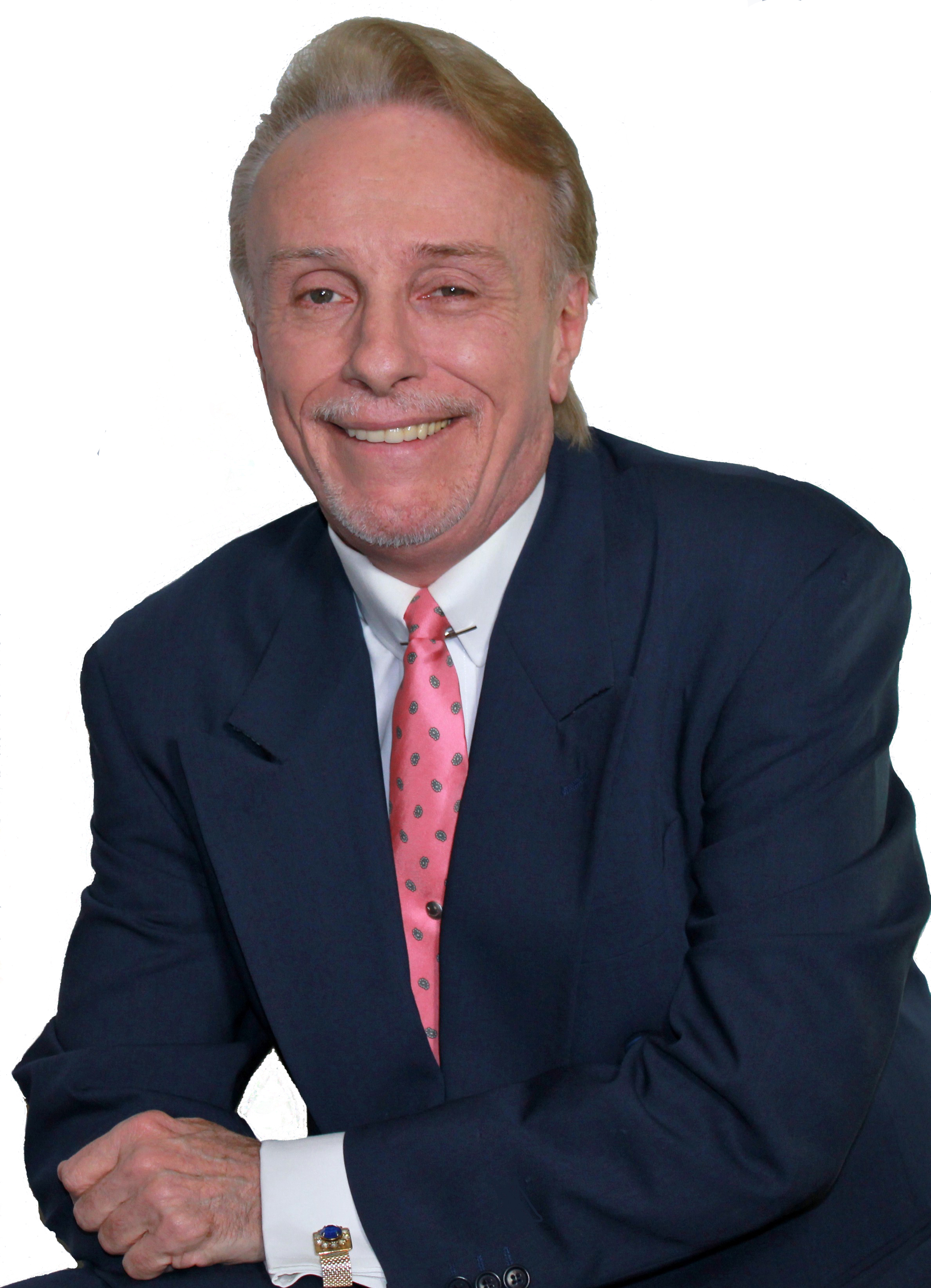 A 2011 portrait of Alan White